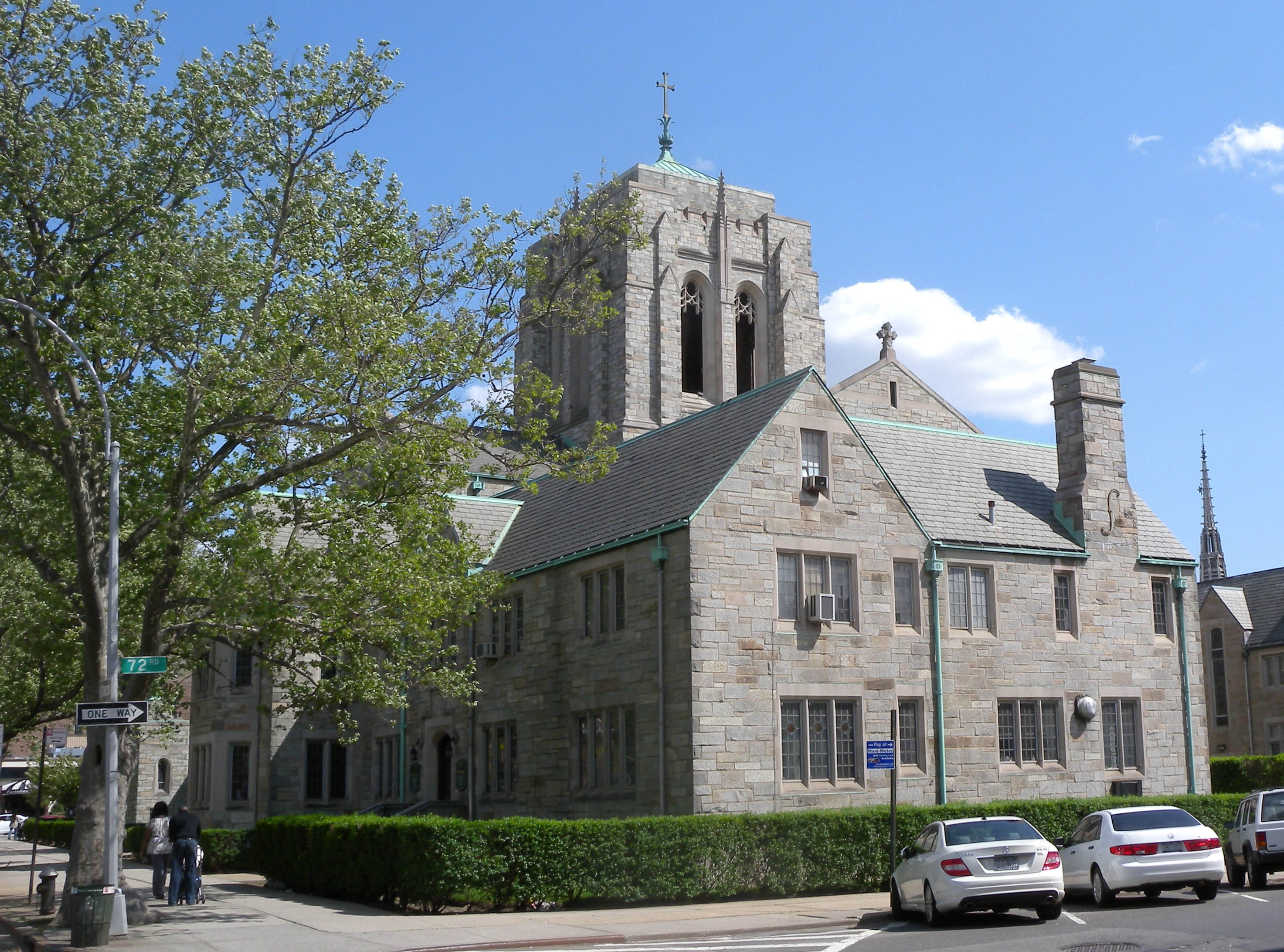 Looking southeast at Our Lady Queen of Martyrs Roman Catholic Church on a sunny midday.